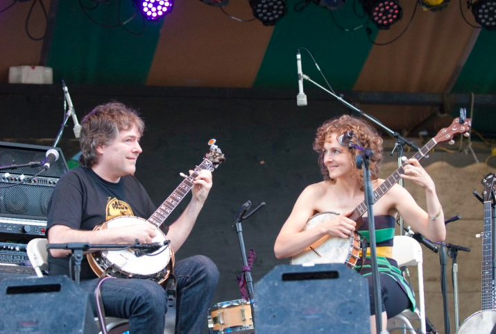 Bela Fleck and Abigail Washburn play the Shakori Hills Festival, near Pittsboro, NC in 2010.